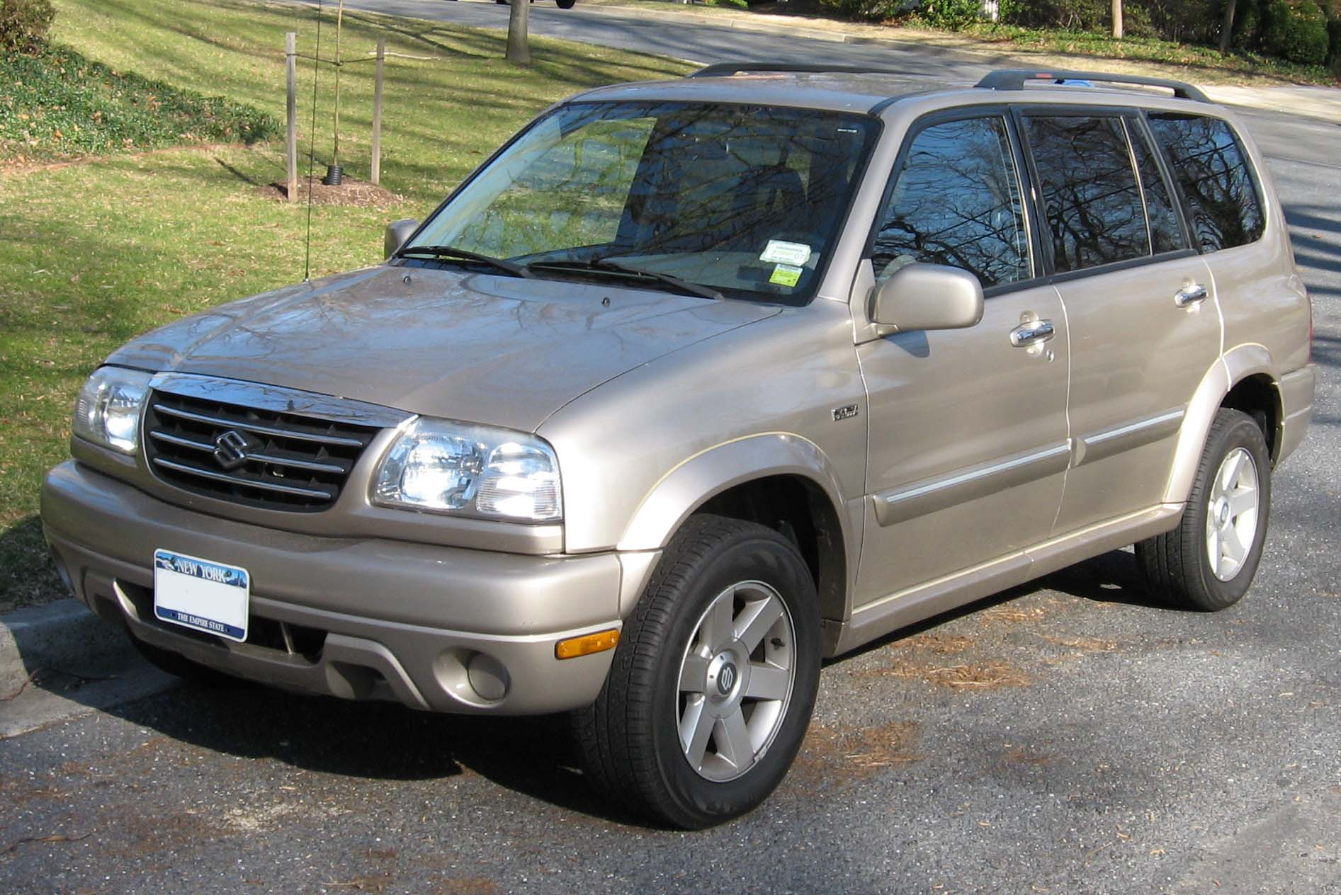 2001-2006 Suzuki XL-7 photographed in USA.